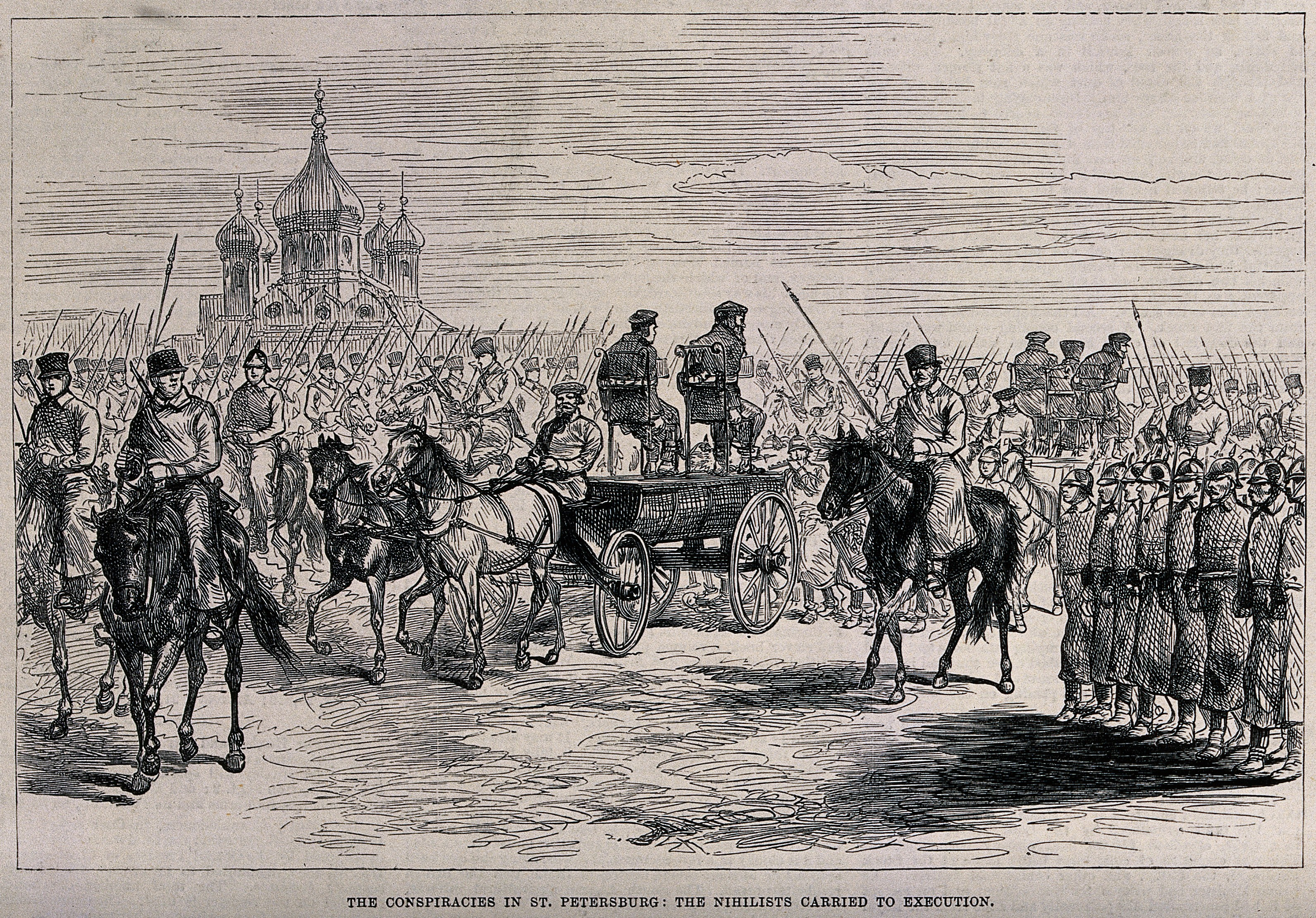 Russian Nihilists are being tied to chairs on horse-drawn platforms and paraded past groups of soldiers on their way to their execution in St. Petersburg. Wood engraving. Iconographic Collections